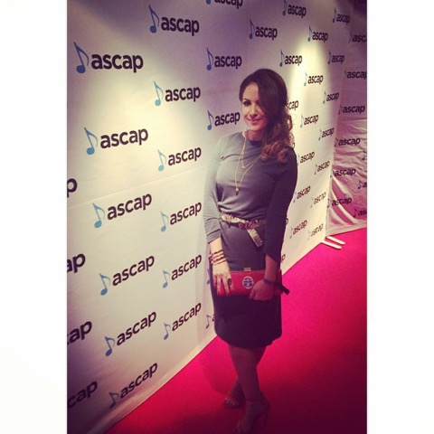 Photograph of musician Dani Senior at 2017 ASCAP awards ceremony